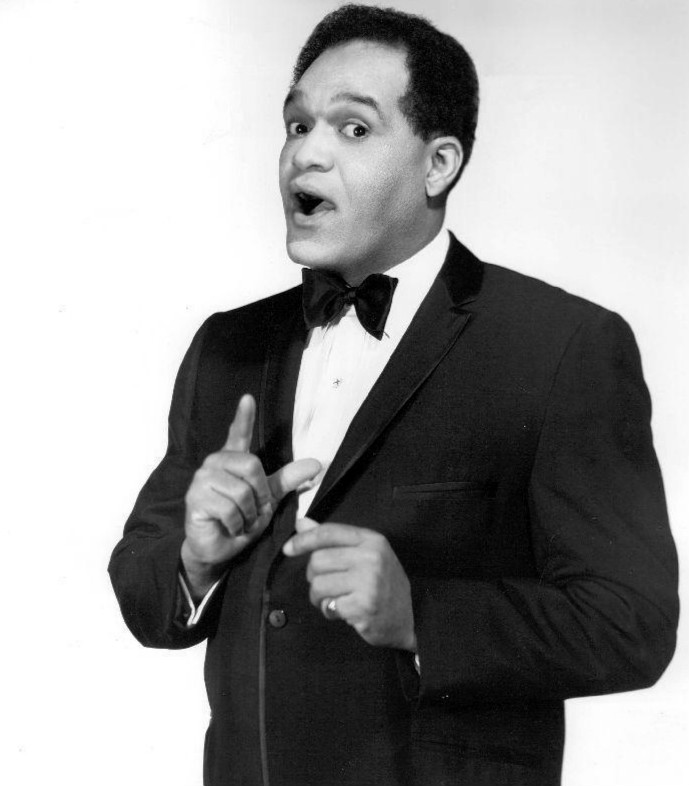 Photo of comedian Slappy White.